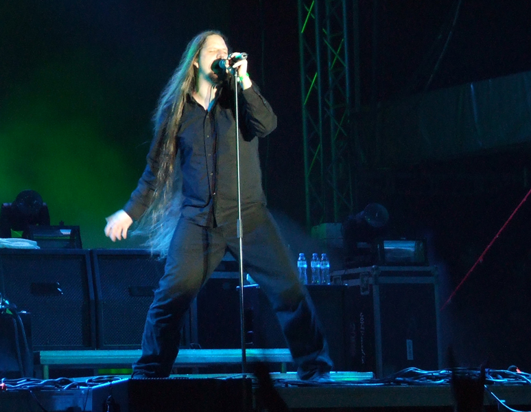 Alexander Krull with Atrocity at Kavarna Rock Fest 2010.